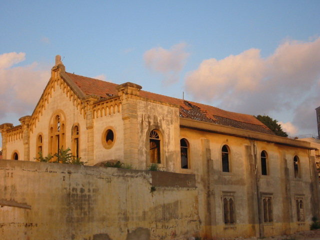 View from the side of the Maghen Abraham Synagogue